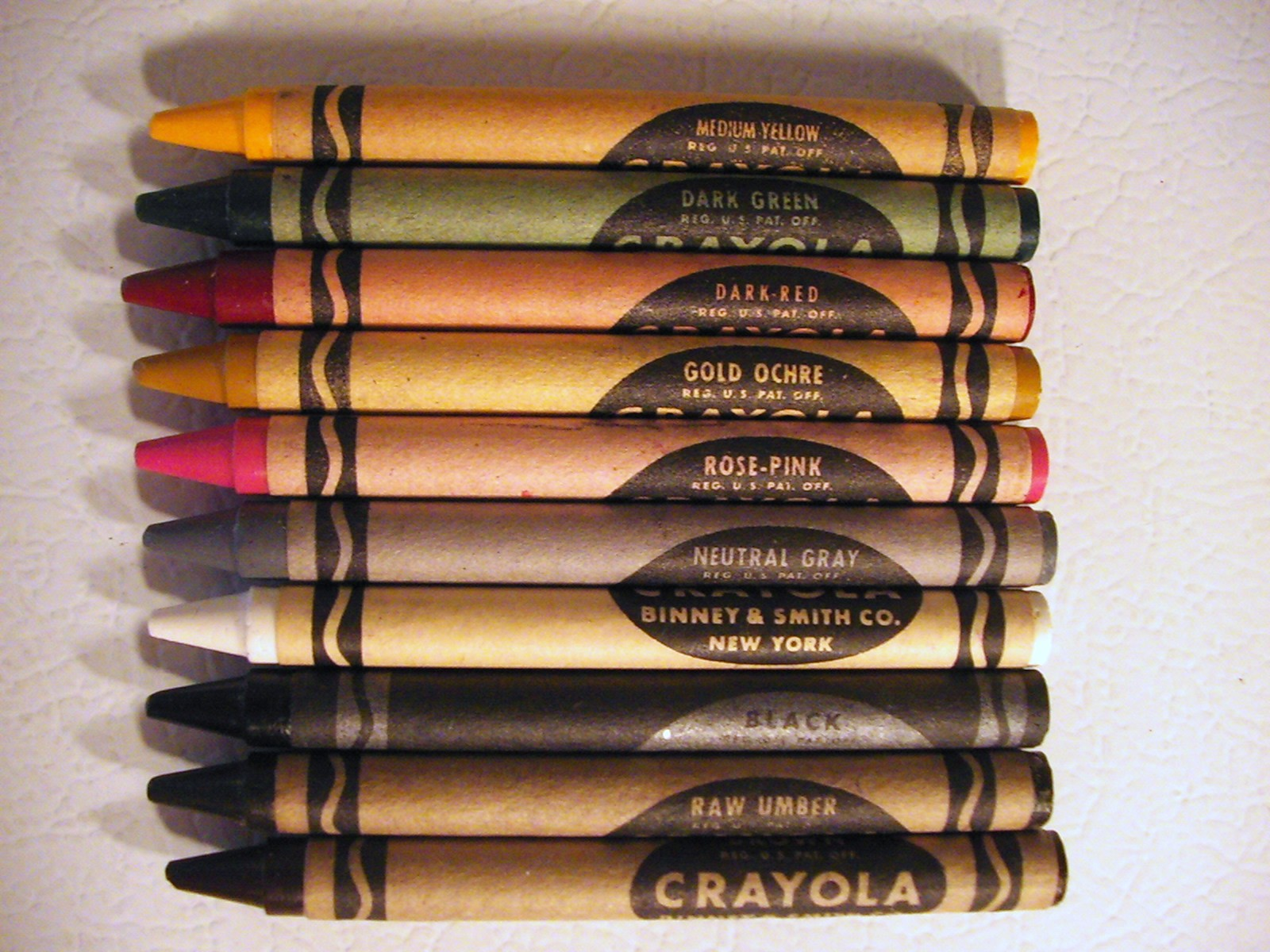 A few of the crayons in the first version of the Crayola No.48 box